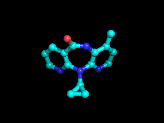 Part of HIV Drug Regimen